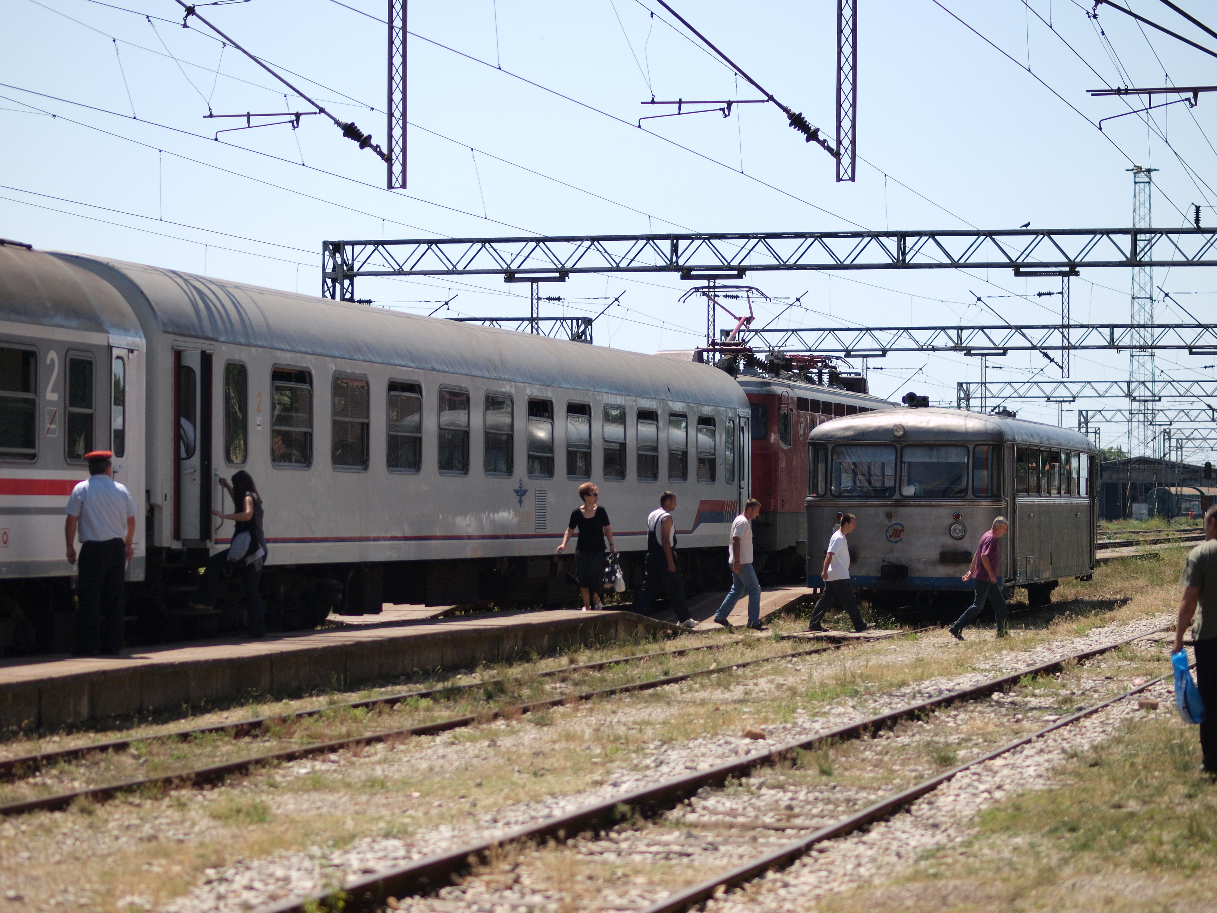 Ruma railway junction